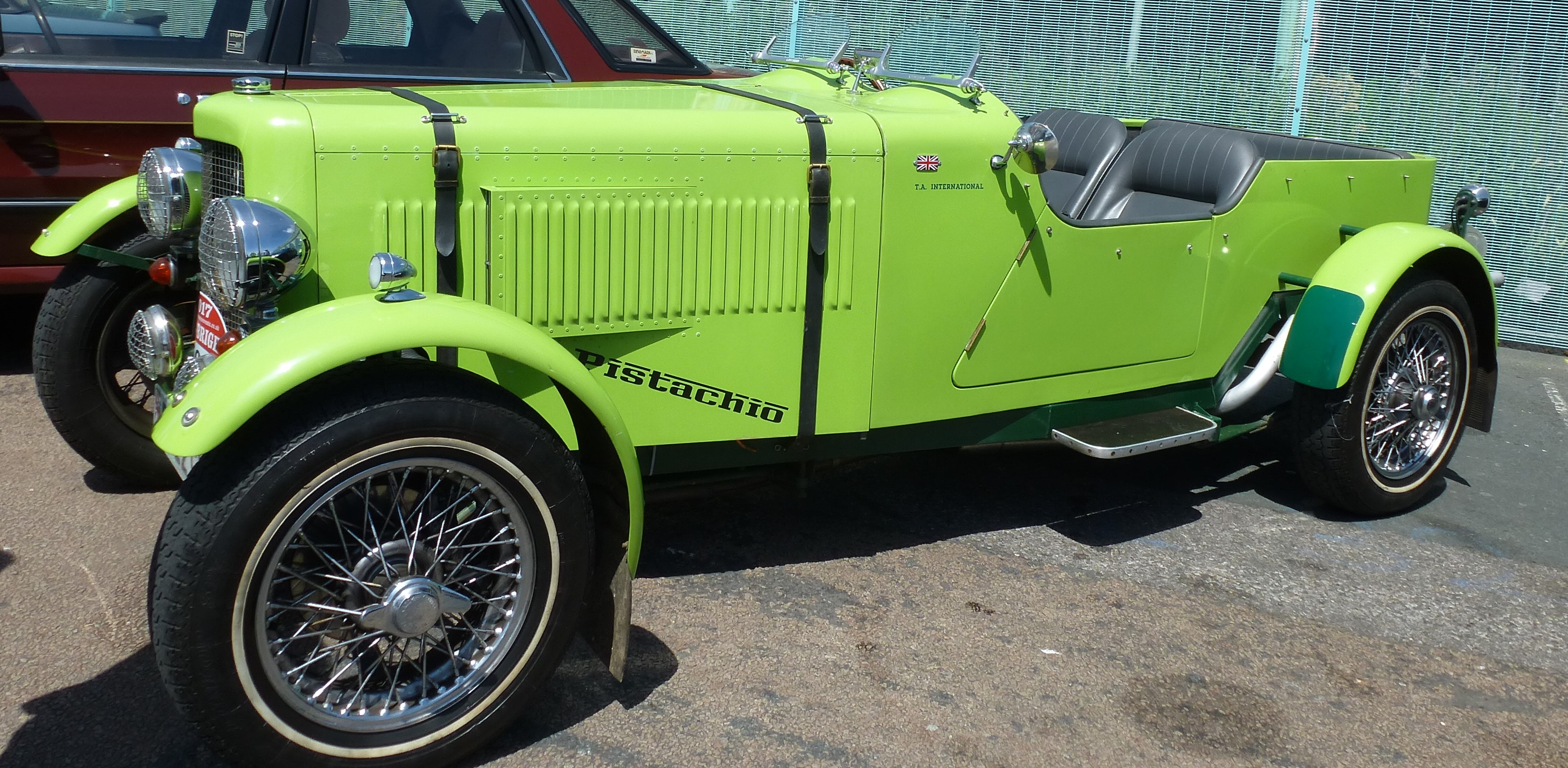 Pastiche International 1991